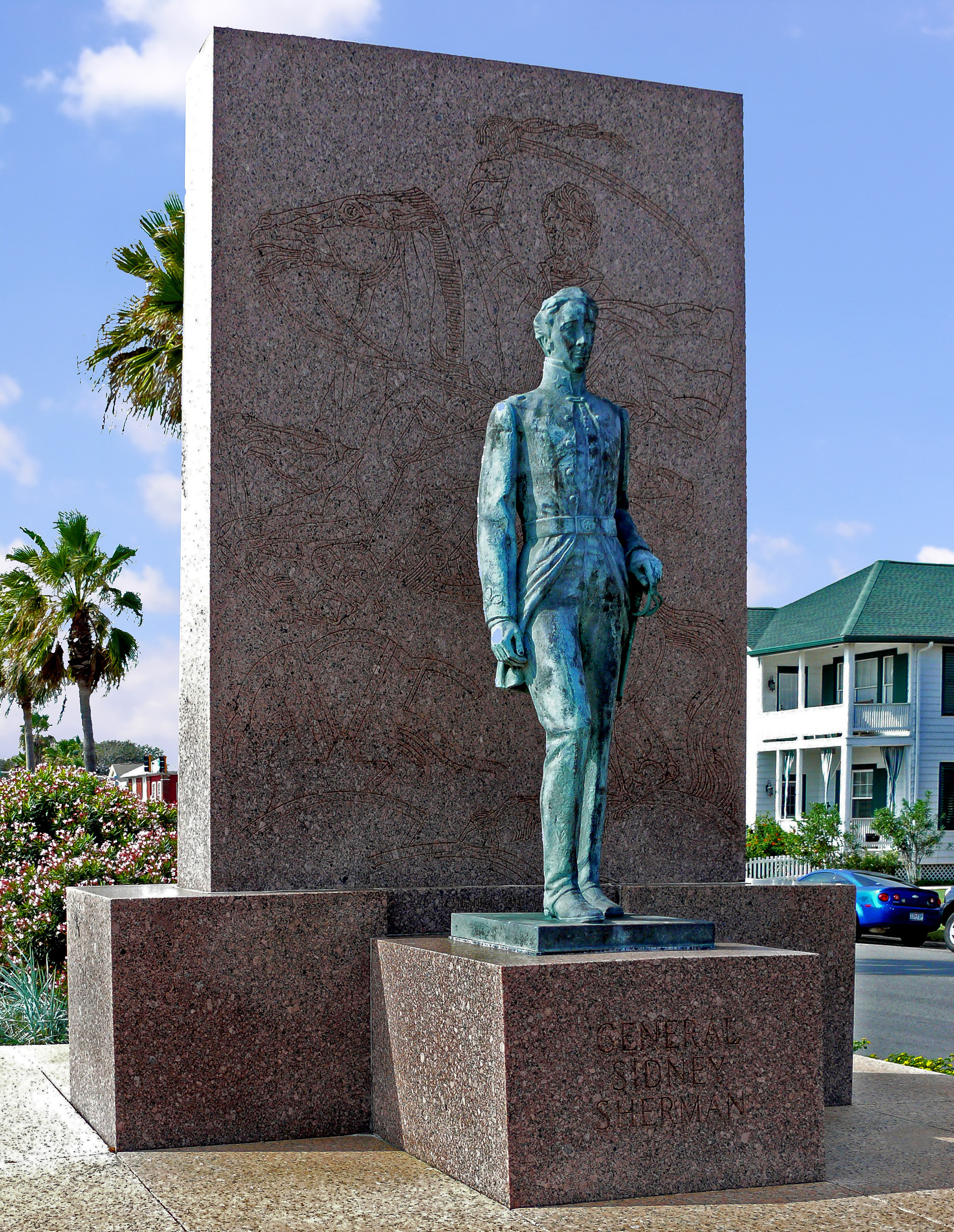 Sidney Sherman commanded the second regiment of volunteers at San Jacinto battle for Texas Independence from Mexico. He was the first to sound the immortal war cry opening the battle - "Remember the Alamo, Remember Goliad." He was a member of the Congress of the Texas Republic 1842, 1843, 1846. He commandant Port of Galveston CSA 1861, 1862. He was the father of the railroads in Texas. The monument, created for the 1936 Texas Centennial stands in the middle of Broadway in Galveston, Texas, United States. Statue scuplted by Gaetano Cecere.